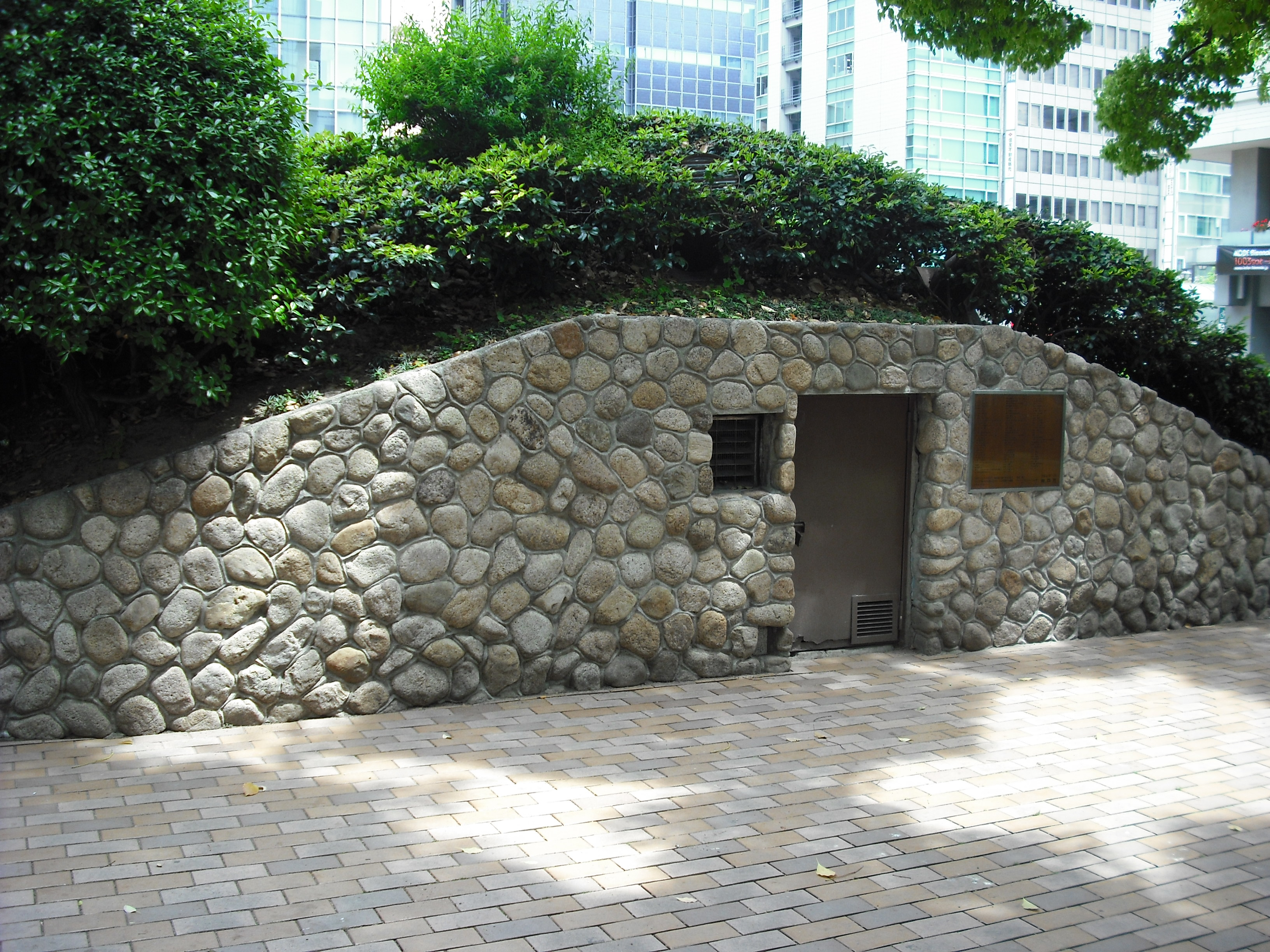 Hana-Dokei（Chuuou-ku,Kobe,Hyogo Prefecture,Japan）